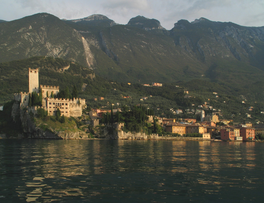 Village of Malchesine on Lake Garda/Italy